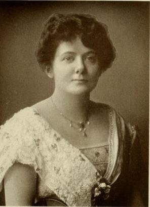 Lulu Kunkel-Burg, Kajiwara Photo, Johnson, Anne (André) "Mrs. Charles P. Johnson", 1871-. Notable women of St. Louis, 1914; (Kindle Location 4402). [St. Louis, Woodward.]